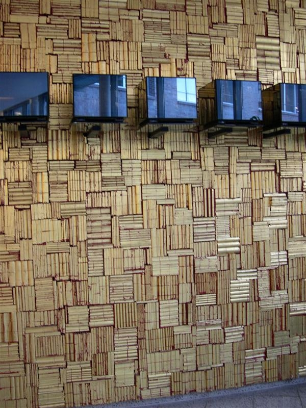 Description: book wall at House of the Book in the city of Leipzig/Buchwand im Haus des Buches in Leipzig Source: transfer from the German Wikipedia/Transfer aus der deutschsprachigen Wikipedia (Bild:Bild:Haus_des_Buches_Buchwand.jpg) Photographer: Bernd Hutschenreuther (User:Huschi) Taken: 2004 Uploader: user:Trainspotter with correct picture orientation (rotation by 90 degrees to right) / Bild beim Upload um 90 Grad nach rechts gedreht